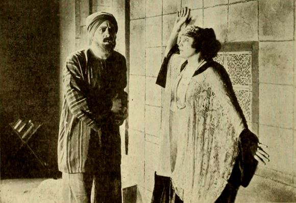 Still from the American film Sahara (1919) with Louise Glaum and Matt Moore, on page 1352 of the May 31, 1919 Moving Picture World.